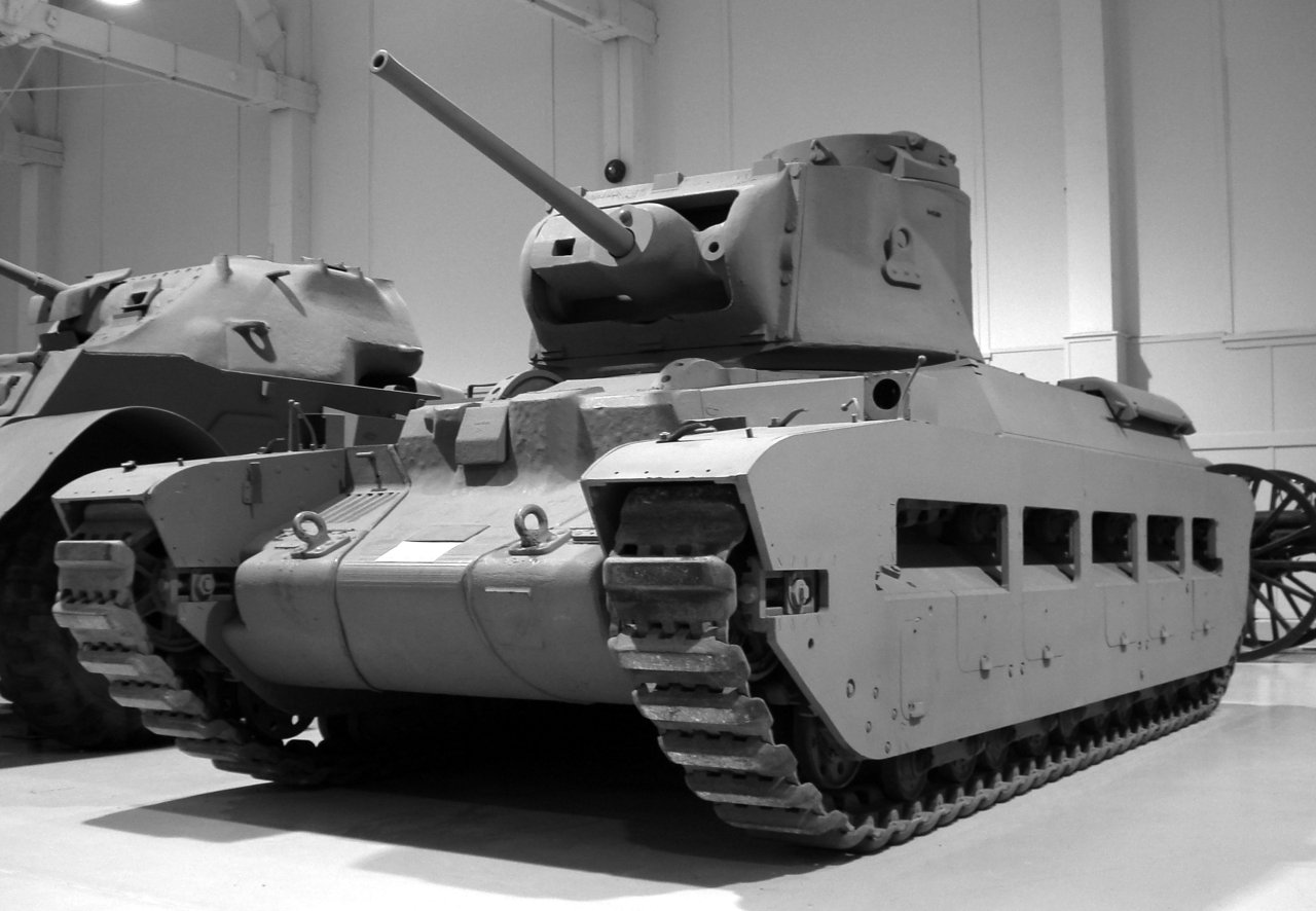 Matilda II tank at Base Borden Military Museum